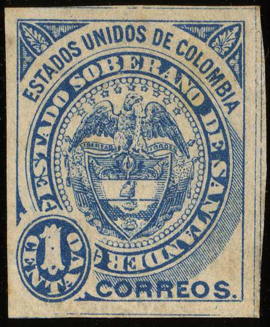 1 centavo, Santander first issue 1884, unused. Michel N°1.